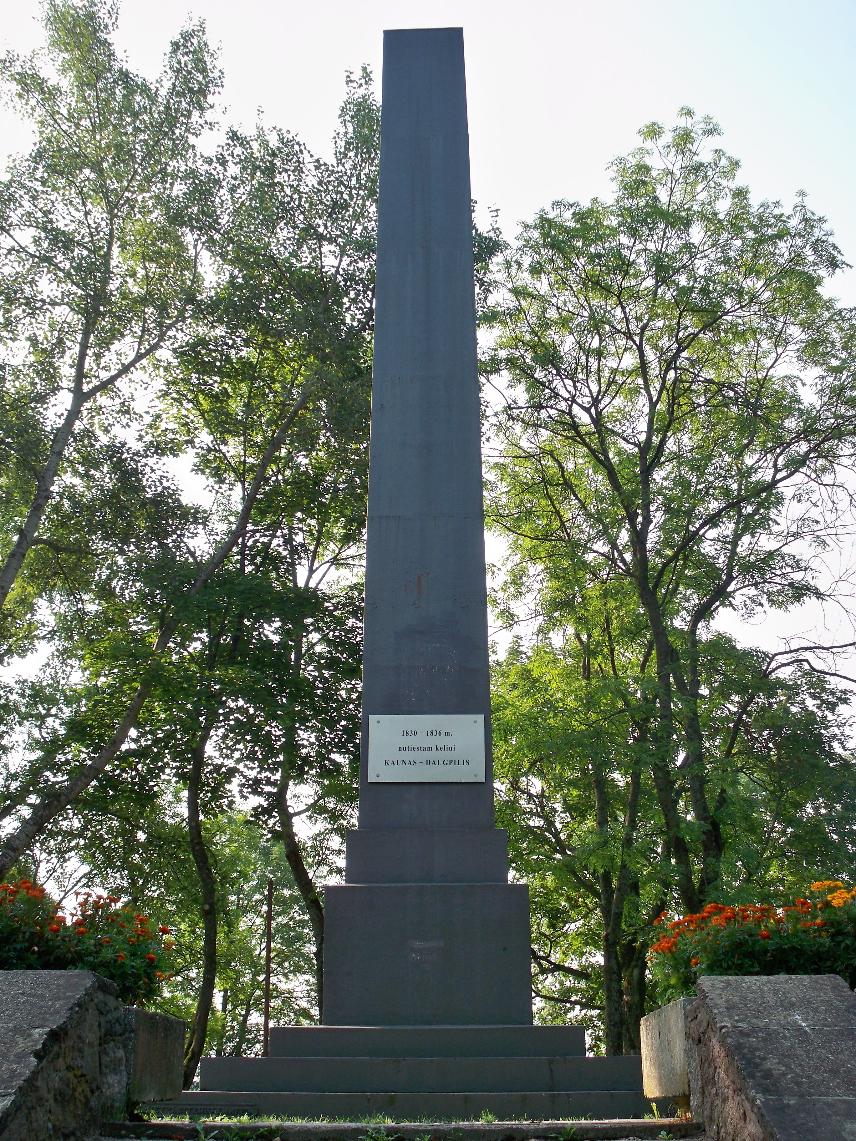 Monument to the Kaunas–Daugavpils road in Zarasai.